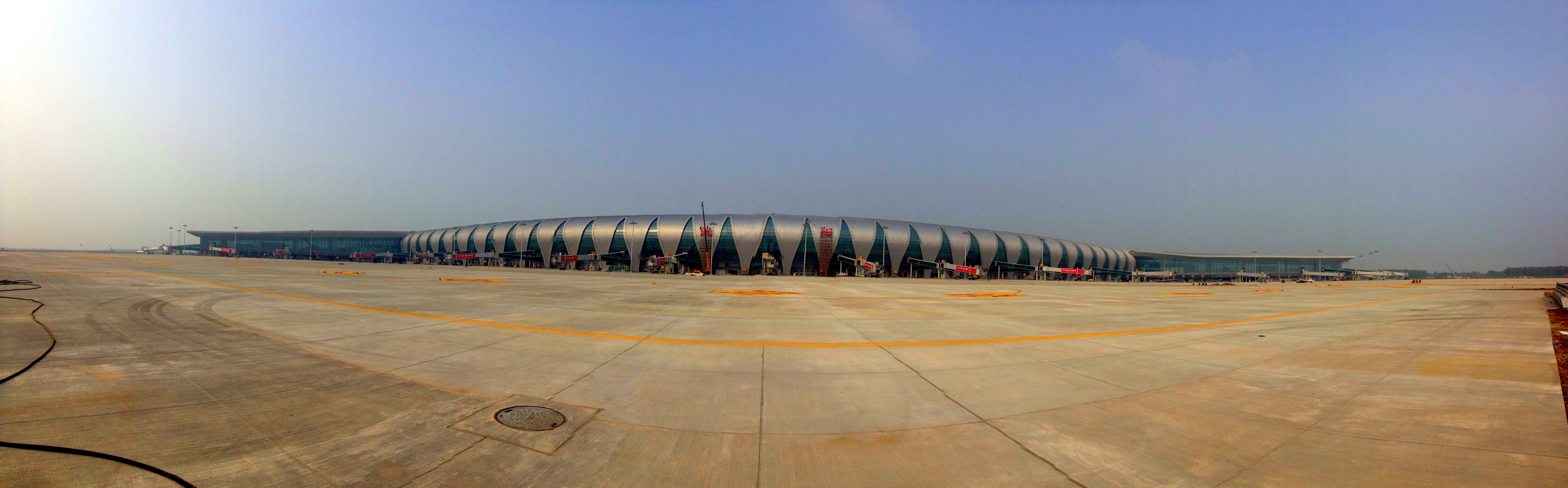 Shenyang Taoxian International Airport T3